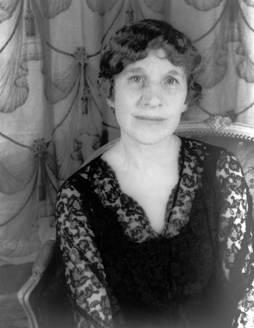 Portrait of Julia Peterkin Portrait of Julia Peterkin